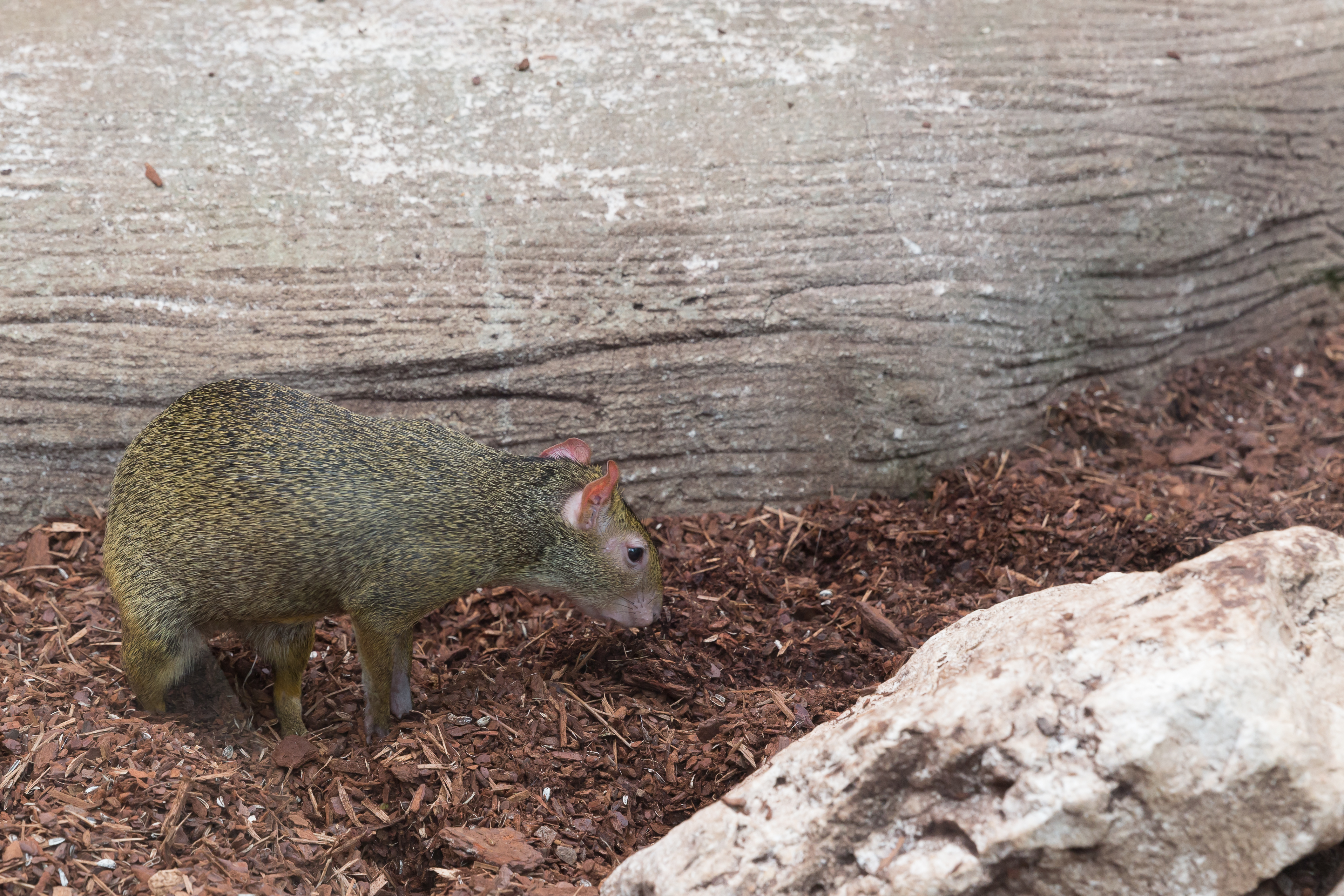 Dasyprocta azarae (Azara's agouti) in the ZooParc in Beauval à Saint-Aignan-sur-Cher, France.